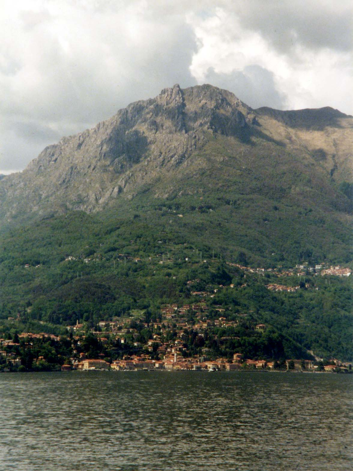 View of Cadenabbia from across Lake Como